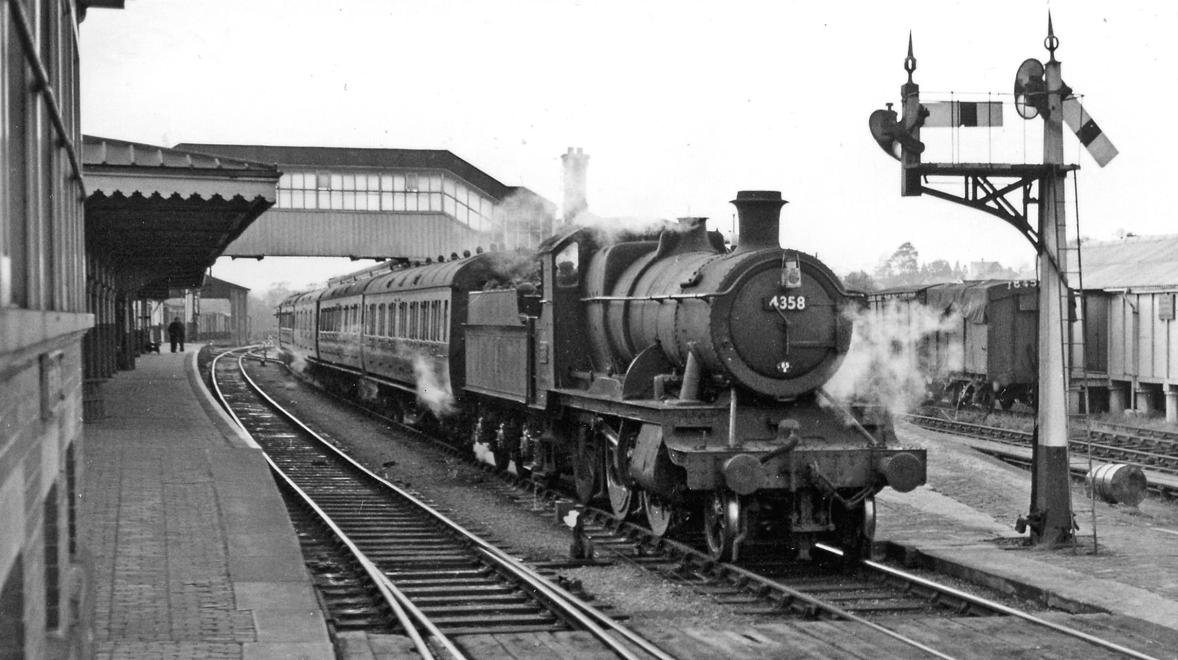 Ross-on-Wye Station, with Hereford - Gloucester train. View westward, towards Hereford; ex-GW (Gloucester) - Grange Court - Ross-on-Wye - Hereford line, junction of line to Monmouth, Chepstow and Pontypool Road (closed 5/1/59). Hereford - Ross-on-Wye - Grange Court was closed to passengers 2/11/64, but goods continued Ross - Grange Court until 1/11/65. The 14.25 Hereford - Gloucester is headed by 43XX 2-6-0 No. 4358.